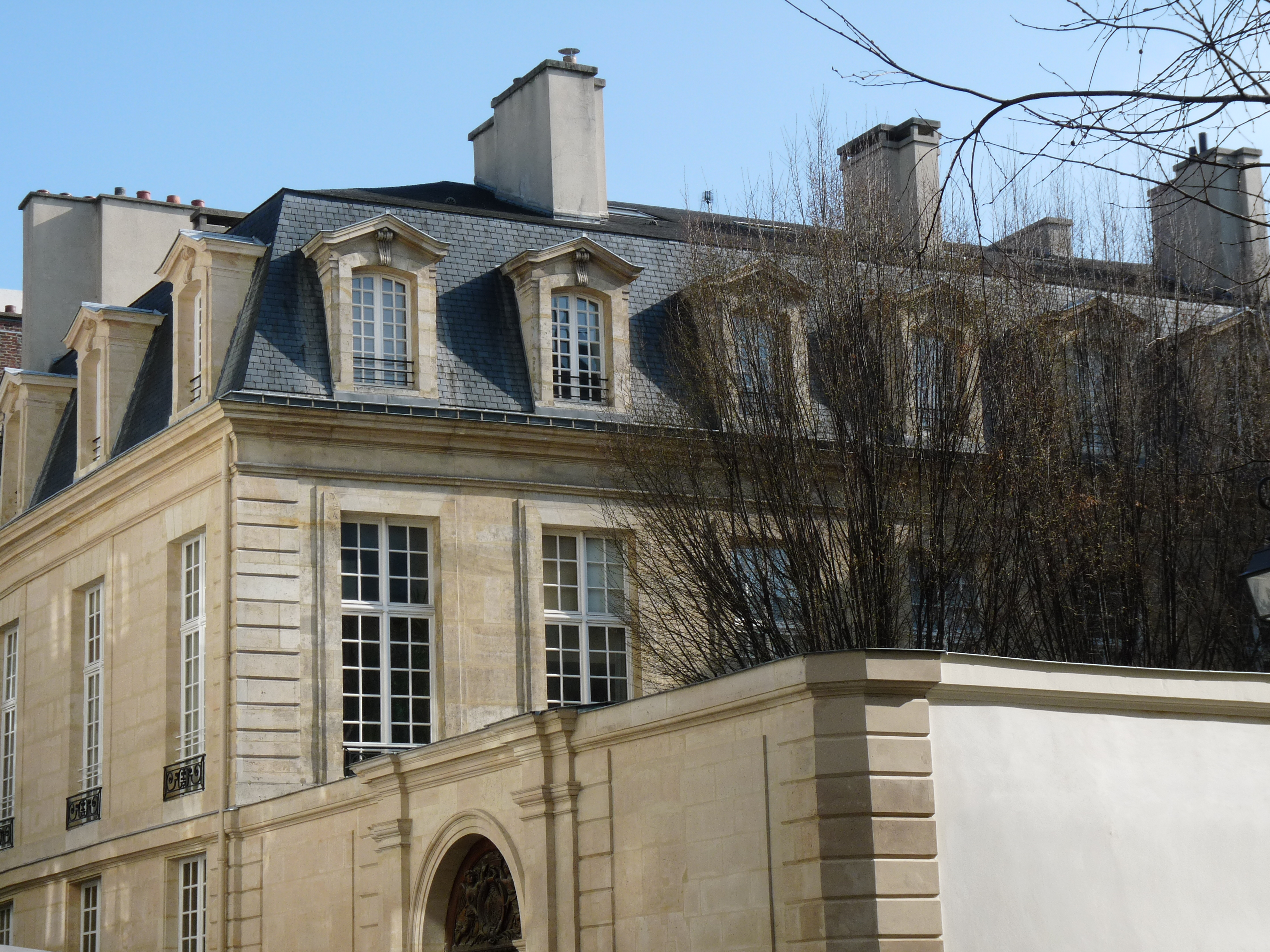 A glimpse of the Hôtel Tallard in the 3rd district of Paris, seen from the entrance of the Post office rue des Archives.